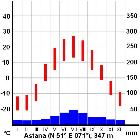 Climate diagram of Nur-Sultan, Kazakhstan max. and min. temperature and total precipitations per month drawn by Miaow Miaow, April 2005